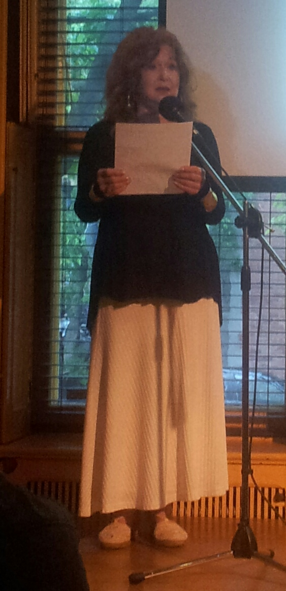 Pauline Michel photographed in Montréal, Québec, Canada at the Québec Writers' Union building.